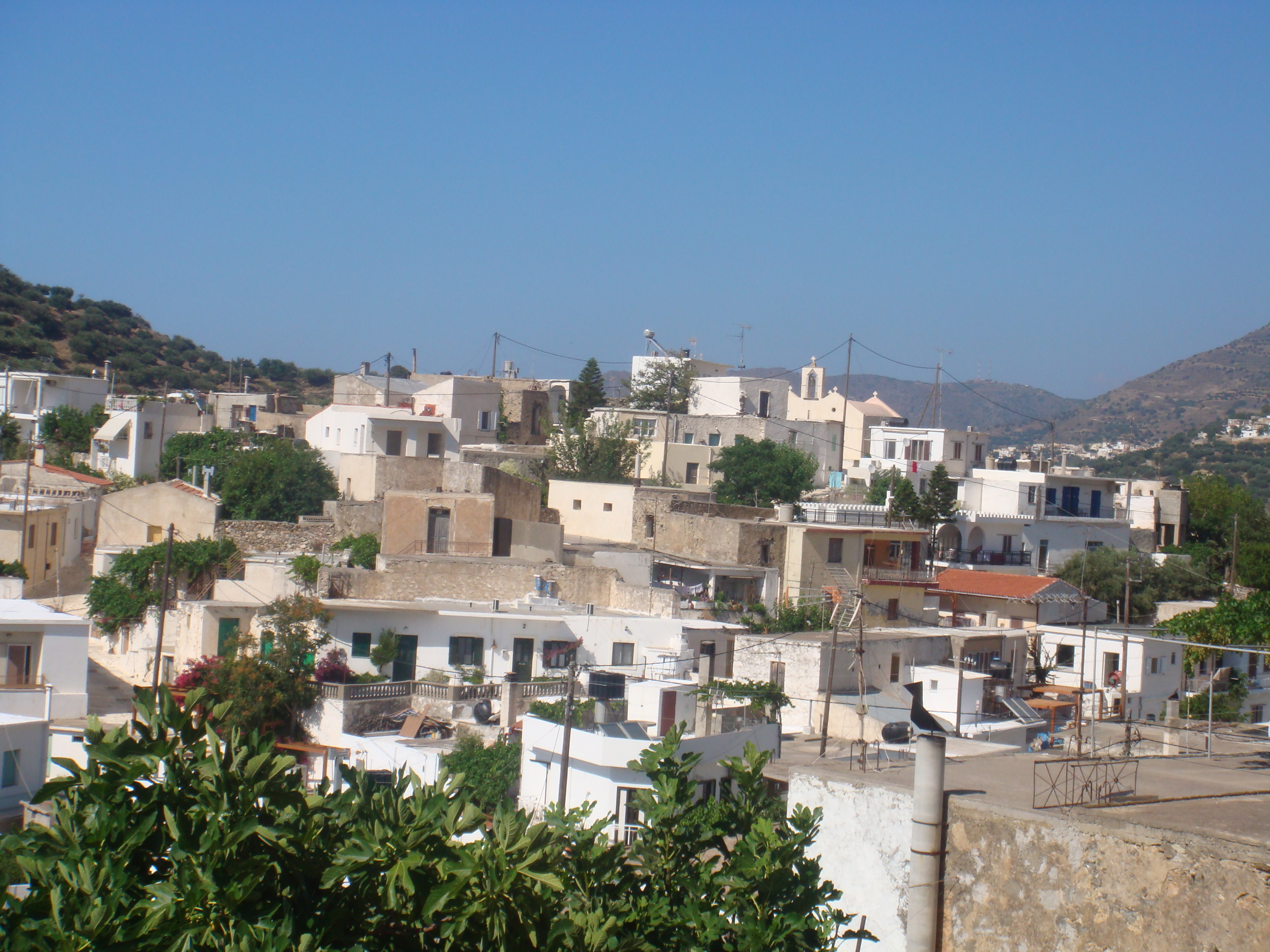 A view from Sfaka, a village in Lasithi prefecture. Formerly Milia, means apple-tree in greek, the settlement stems his name from a plant.